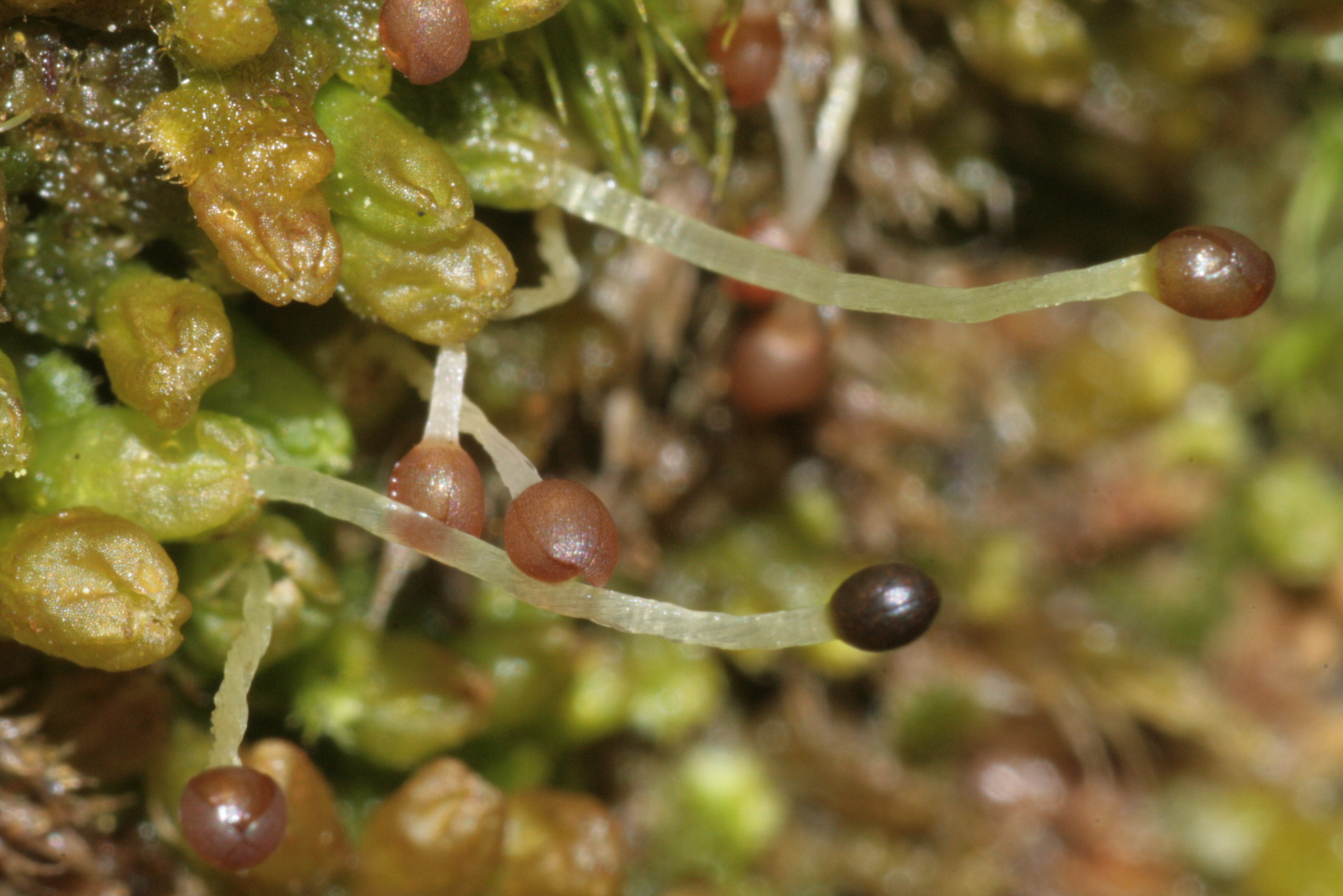 Ptilidium pulcherrimum